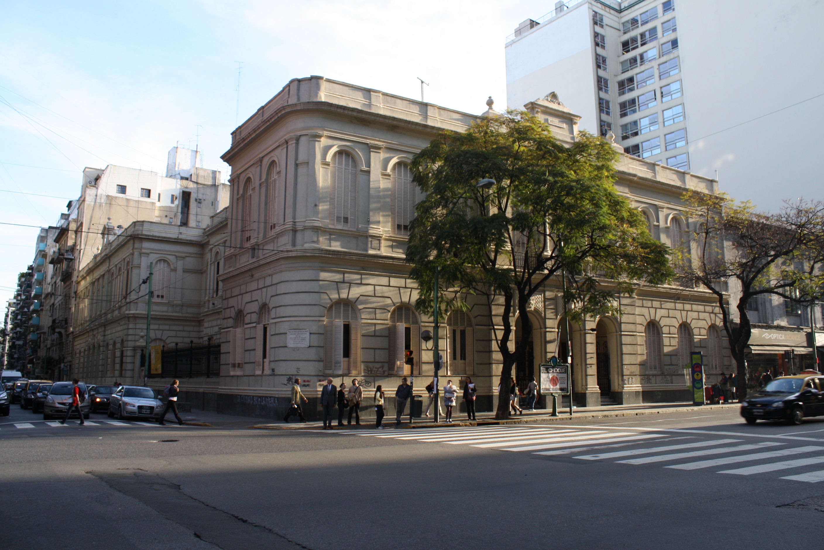 The Onésimo Leguizamón School, designed by Carlos Morra and completed in 1886. Santa Fe 1500, Recoleta, Buenos Aires.